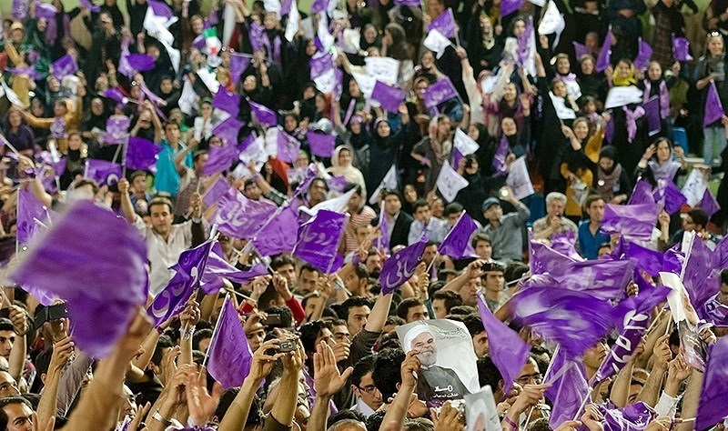 Presidential candidate Hassan Rouhani in Tabriz